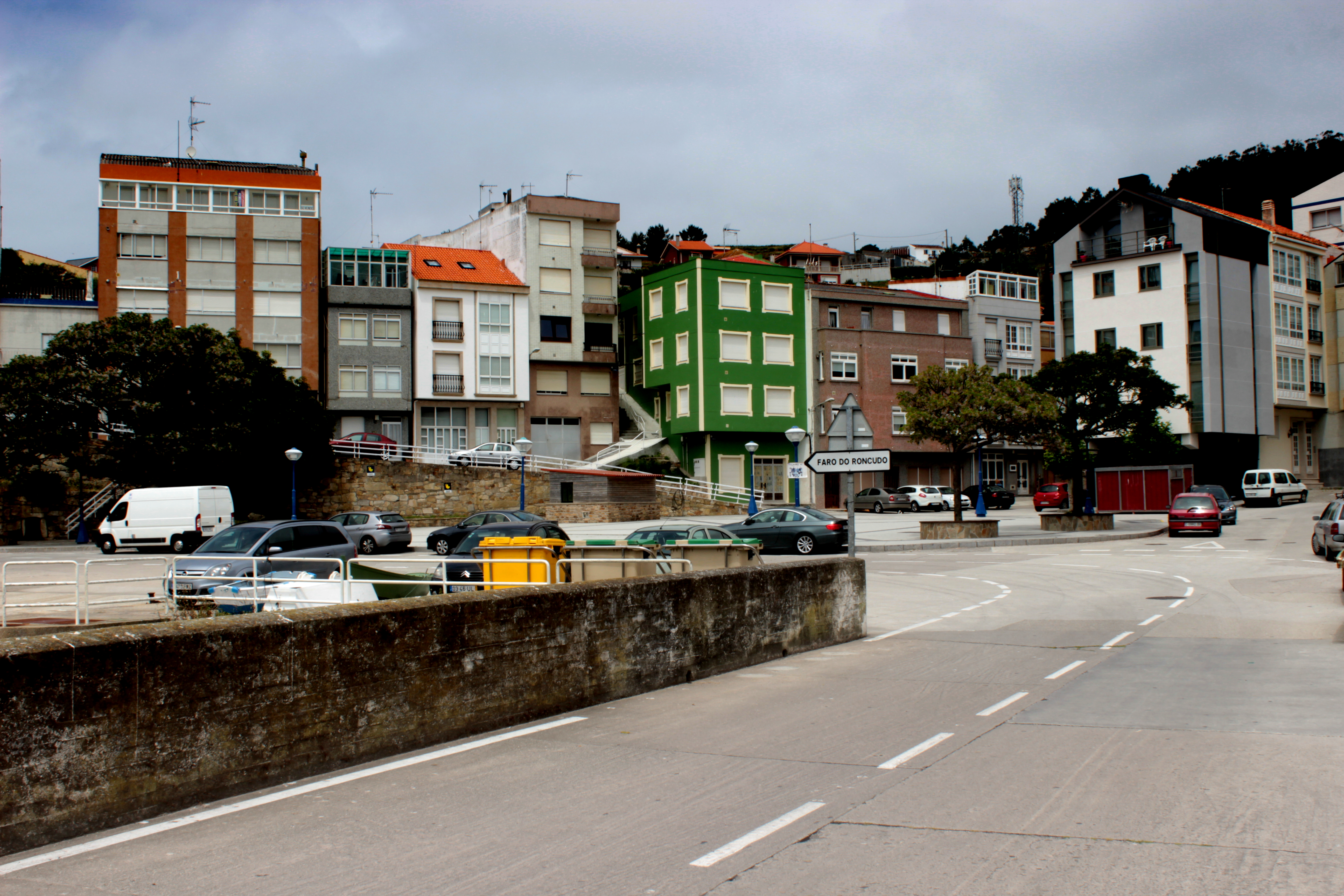 Corme